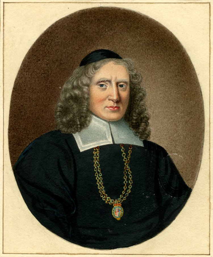 Portrait of the English antiquarian Sir William Dugdale, drawn by Sylvester Harding, engraved by Berrel for 'the Biographical Mirrour,' 1802. 106 mm x 81 mm. Courtesy of the British Museum, London.